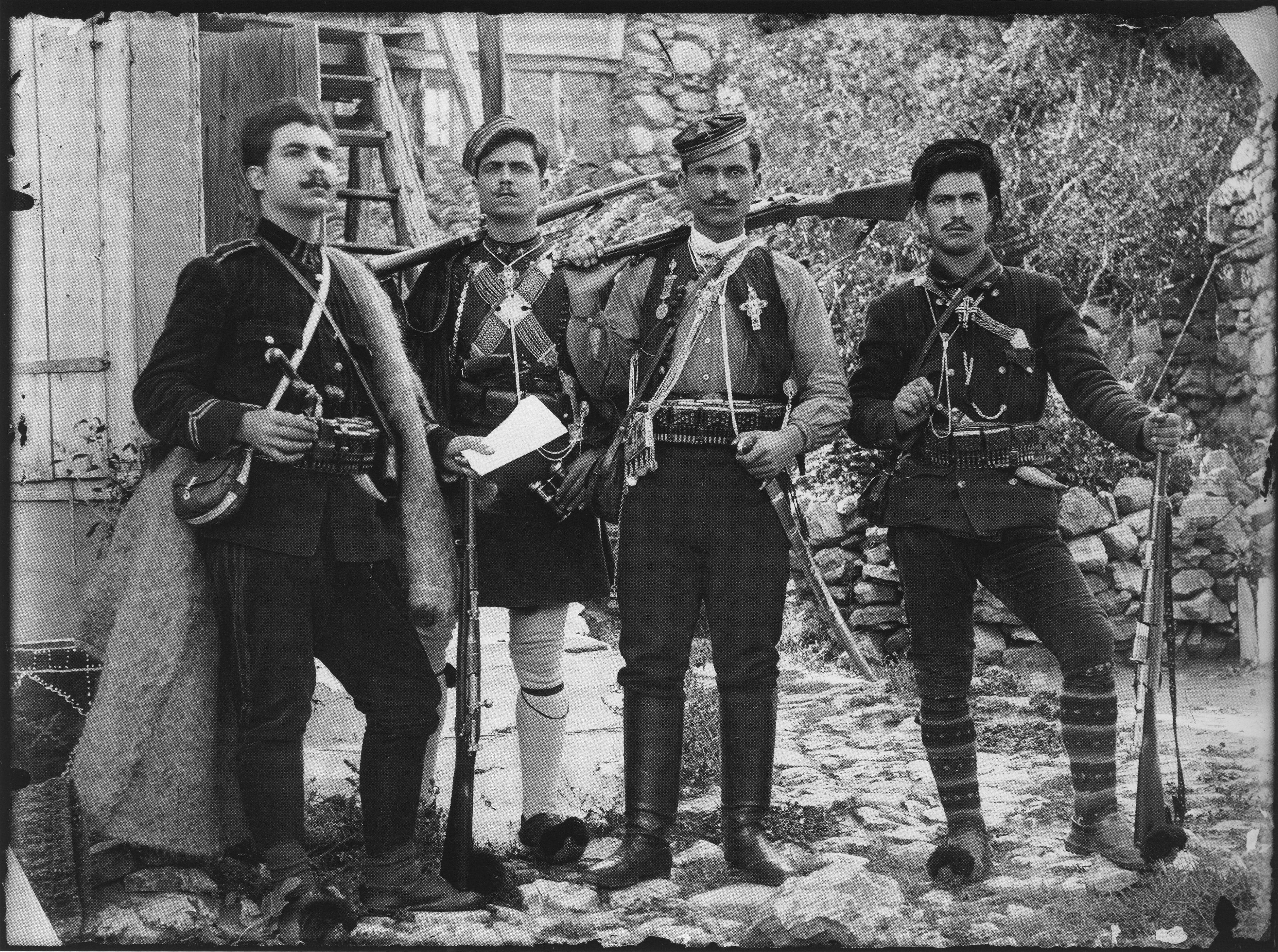 Captain Lazaros Apostolidis - Greek fighters of the Macedonian struggle.